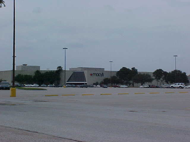 The Macy's at Greenspoint Mall in Houston, Texas was a Foley's until 2006.